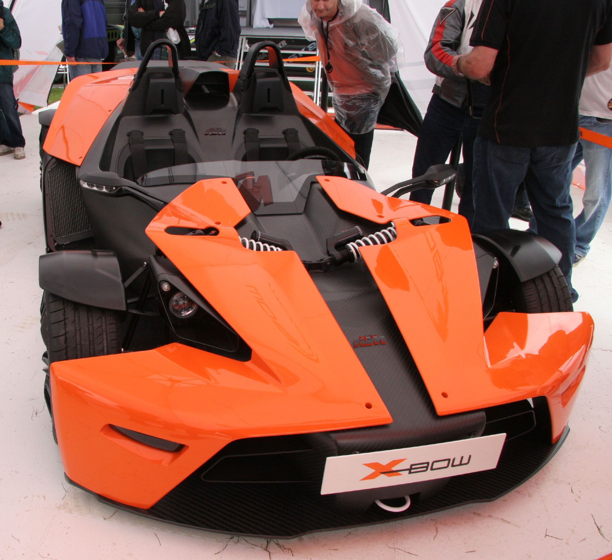 A KTM X-Bow on display